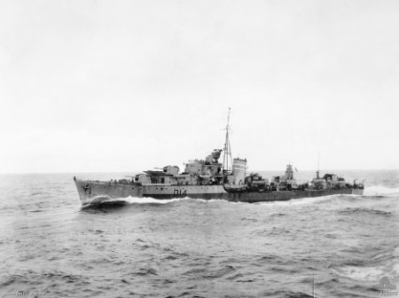 AWM Caption: STARBOARD SIDE VIEW OF THE DESTROYER HMAS NEPAL (EX HMS NORSEMAN). NOTE THE IDENTIFYING FUNNEL BANDS OF THE 7TH DESTROYER FLOTILLA. SHE IS ARMED WITH SIX 4.7 INCH MARK XII GUNS IN CP XIX MOUNTINGS IN A, B AND X POSITIONS. 40 MM BOFORS AA GUNS ARE SITED IN THE AFTER TORPEDO TUBE SPACE. A QUADRUPLE 2 POUNDER AA MOUNTING IS SITED ABAFT THE FUNNEL AND SINGLE 20 MM OERLIKON AA GUNS ARE MOUNTED IN THE BRIDGE WINGS AND ABREAST THE SEARCHLIGHT PLATFORM. NOTE THE TYPE 291 RADAR AT THE MASTHEAD, TYPE 271 RADAR REPLACING THE SEARCHLIGHT ON ITS PLATFORM AMIDSHIPS AND TYPE 285 FIRE CONTROL RADAR ON THE HIGH ANGLE DIRECTOR TOWER BEHIND THE BRIDGE. THE SHIP IS PAINTED IN AN ADMIRALTY STANDARD CAMOUFLAGE SCHEME OF GREY (45) WITH A BLUE (B20) PANEL. NOTE THAT A BRITISH PACIFIC FLEET LOCAL PENNANT NUMBER (D14) HAS TEMPORARILY REPLACED HER NORMAL PENNANT NUMBER (G25). (NAVAL HISTORICAL COLLECTION)